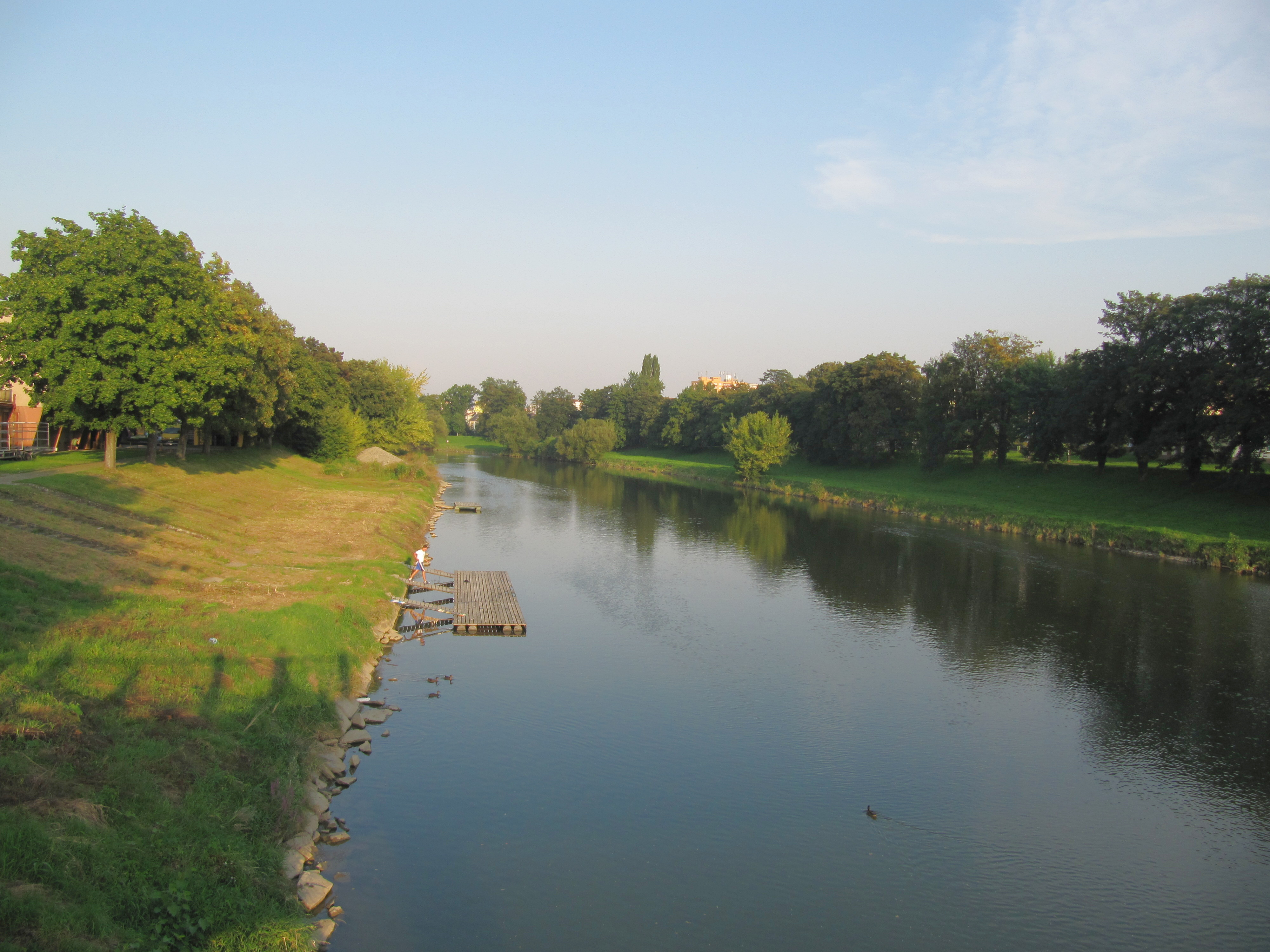 Přerov , Czech Republic. Becva River from the walkway U Loděnice. This photograph was taken within the scope of the third year of the 'Czech Municipalities Photographs' grant.